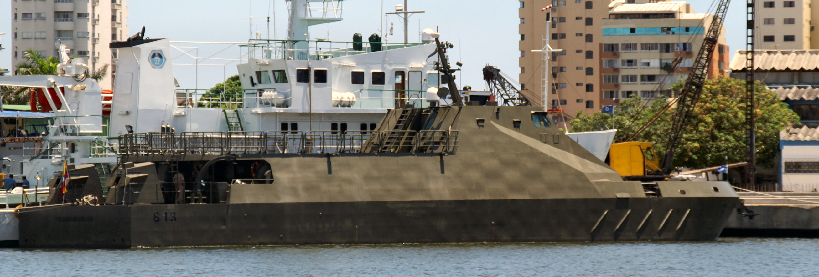 A craft taken in Cartagena, Colombia by uploader.